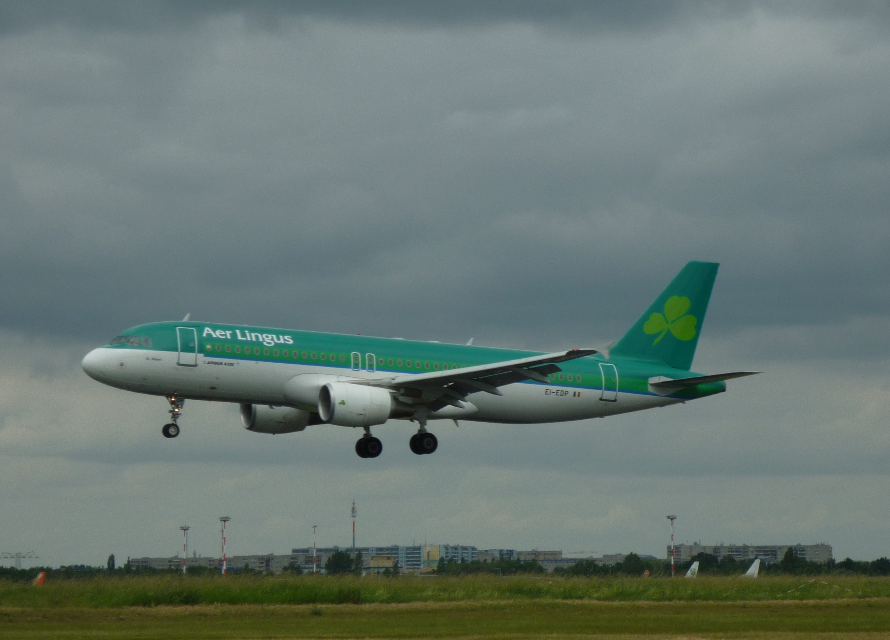 Aer Lingus Airbus A320-200 registrated EI-EDP at SXF.